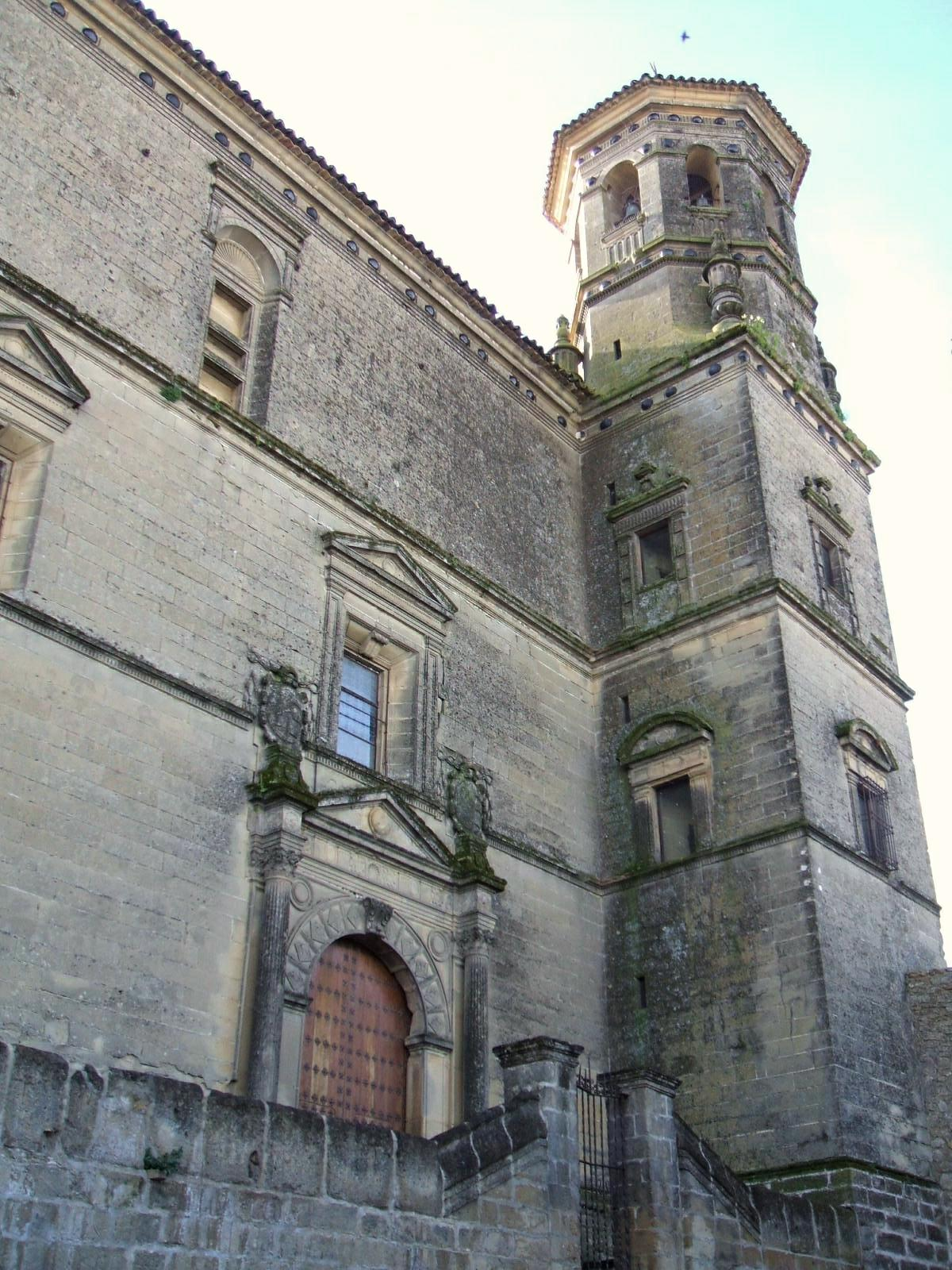 Iglesia de la Antigua Universidad de Baeza (Jaén, Andalucía, España)